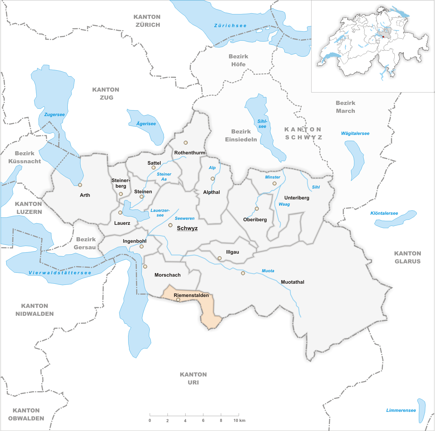 Municipality Riemenstalden